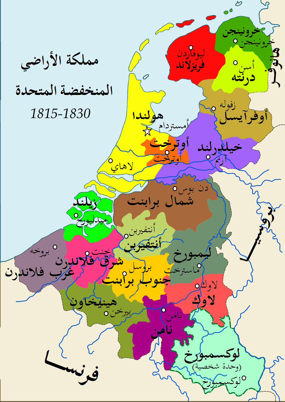 The United Kingdom of the Netherlands, 1815-1830, with the Grand Duchy of Luxemburg in personal union. in Arabic